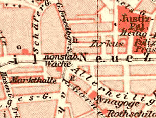 Frankfurt city map, 1893: Konstablerwache, today one of central Frankfurt's main city squares.